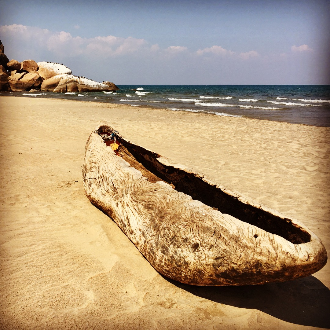 Dugout canoe on the shores of Lake Malawi This is an image of "African people at work" from Malawi